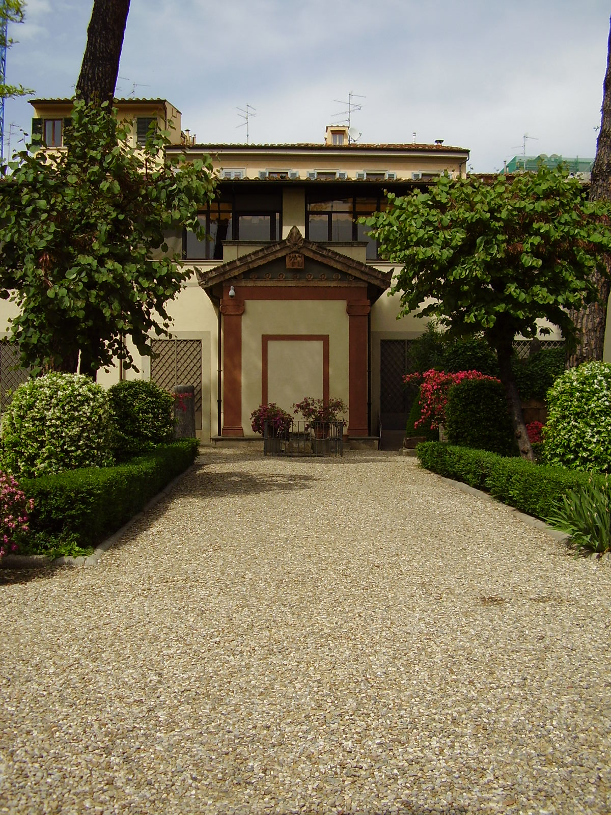 National Archeological Musem of Florence, outside view of the gardens with Etruscan temple in Florence, Italy